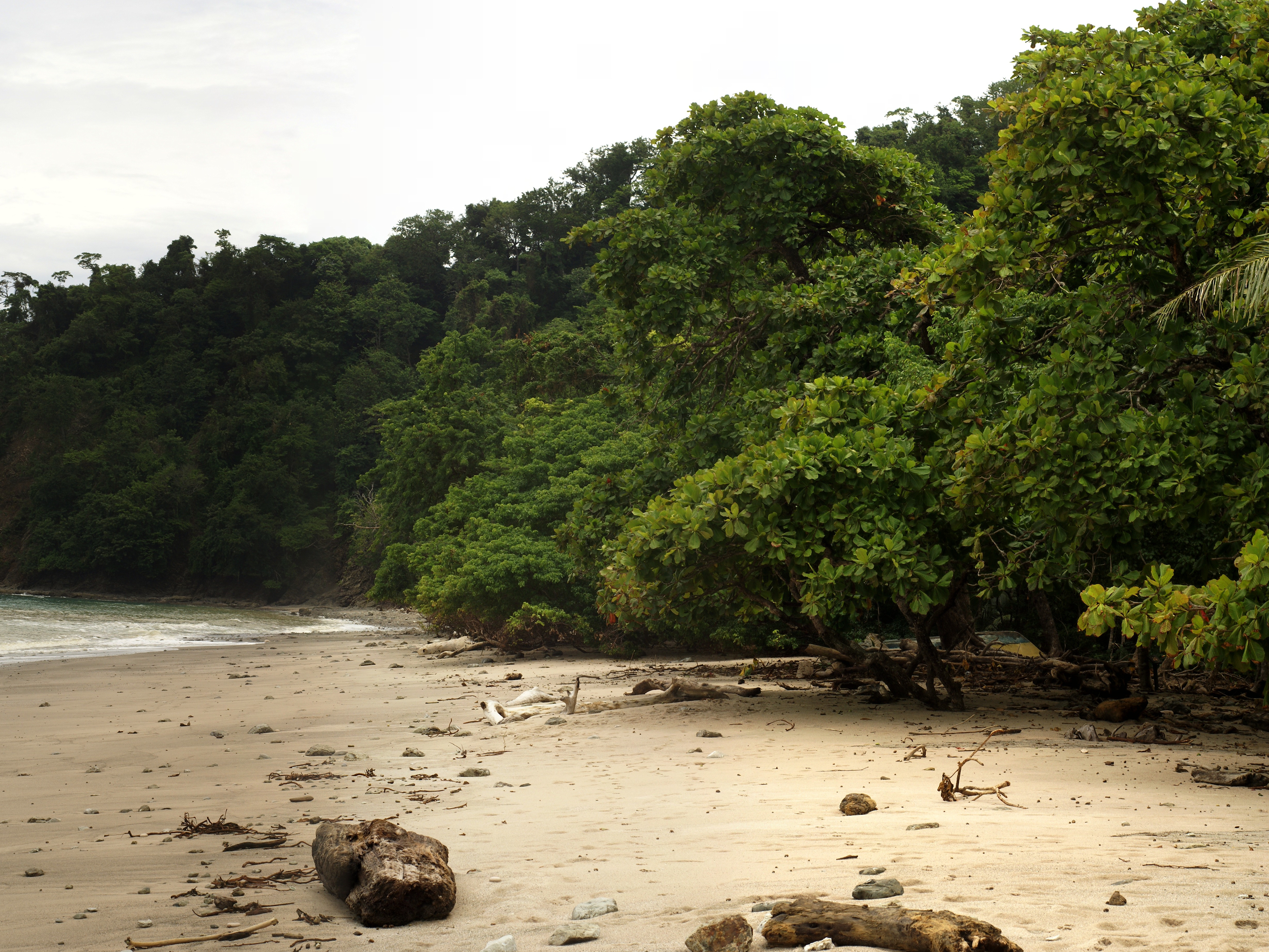 Beach at Cabo Blanco, Nicoya Peninsula, Costa Rica.